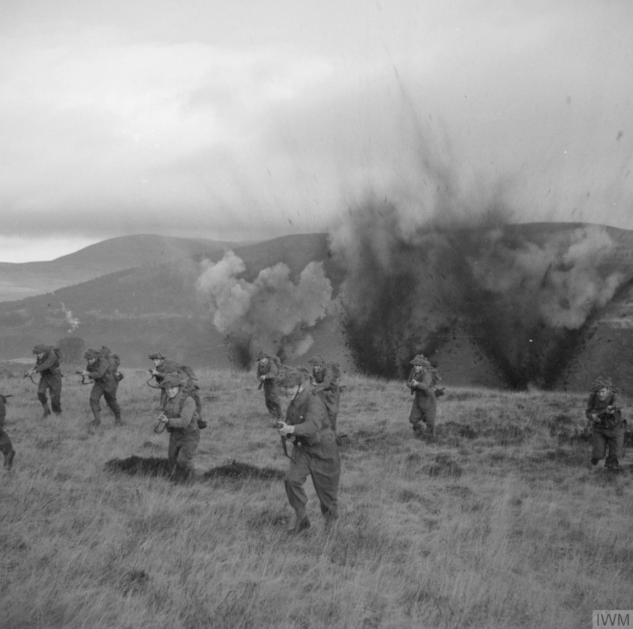 The British Army in the United Kingdom 1939-45 Men of the Royal Scots Fusiliers charge with fixed bayonets through 'artillery fire' at a battle school in Scotland, 20 December 1943.